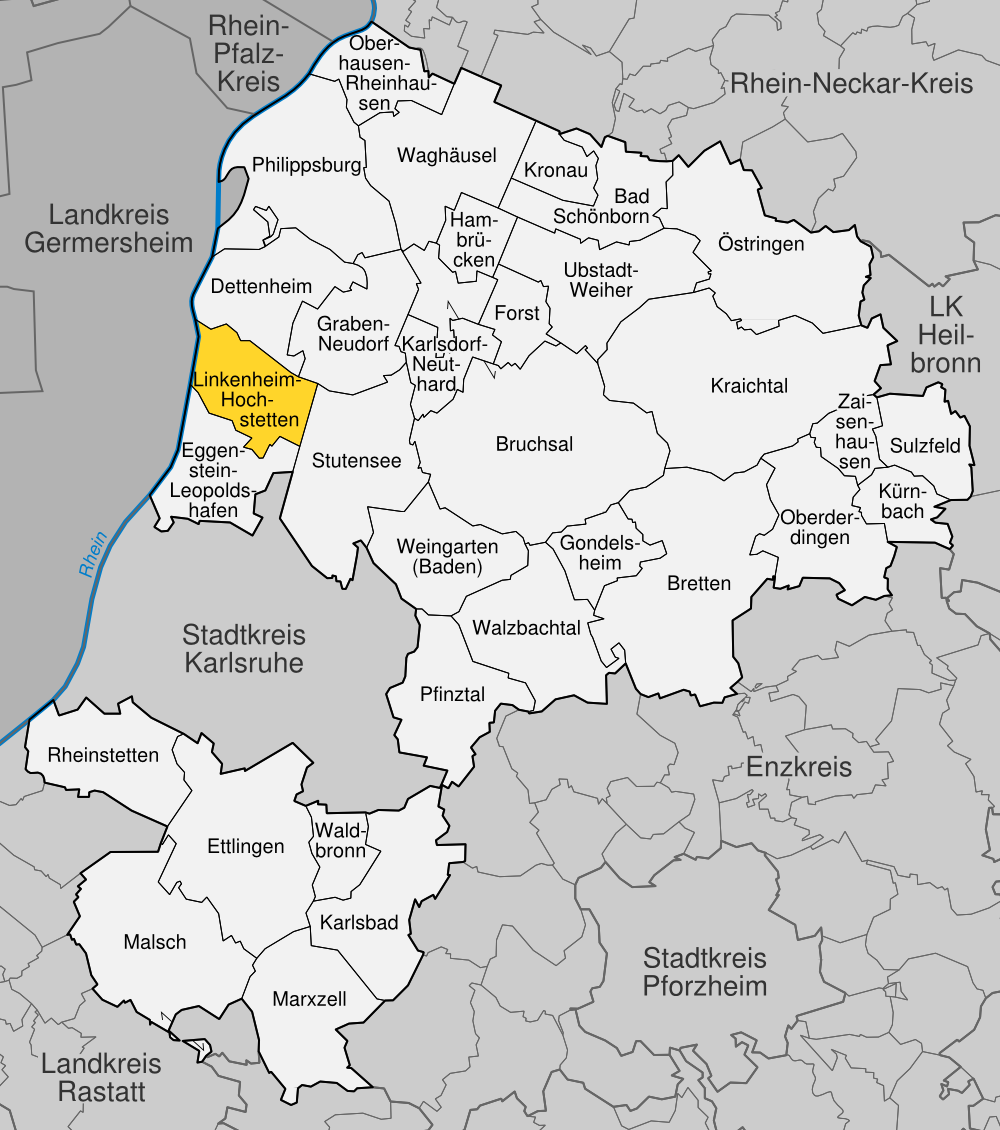 position of Linkenheim-Hochstetten within distict of Karlsruhe, Baden-Württemberg, Germany